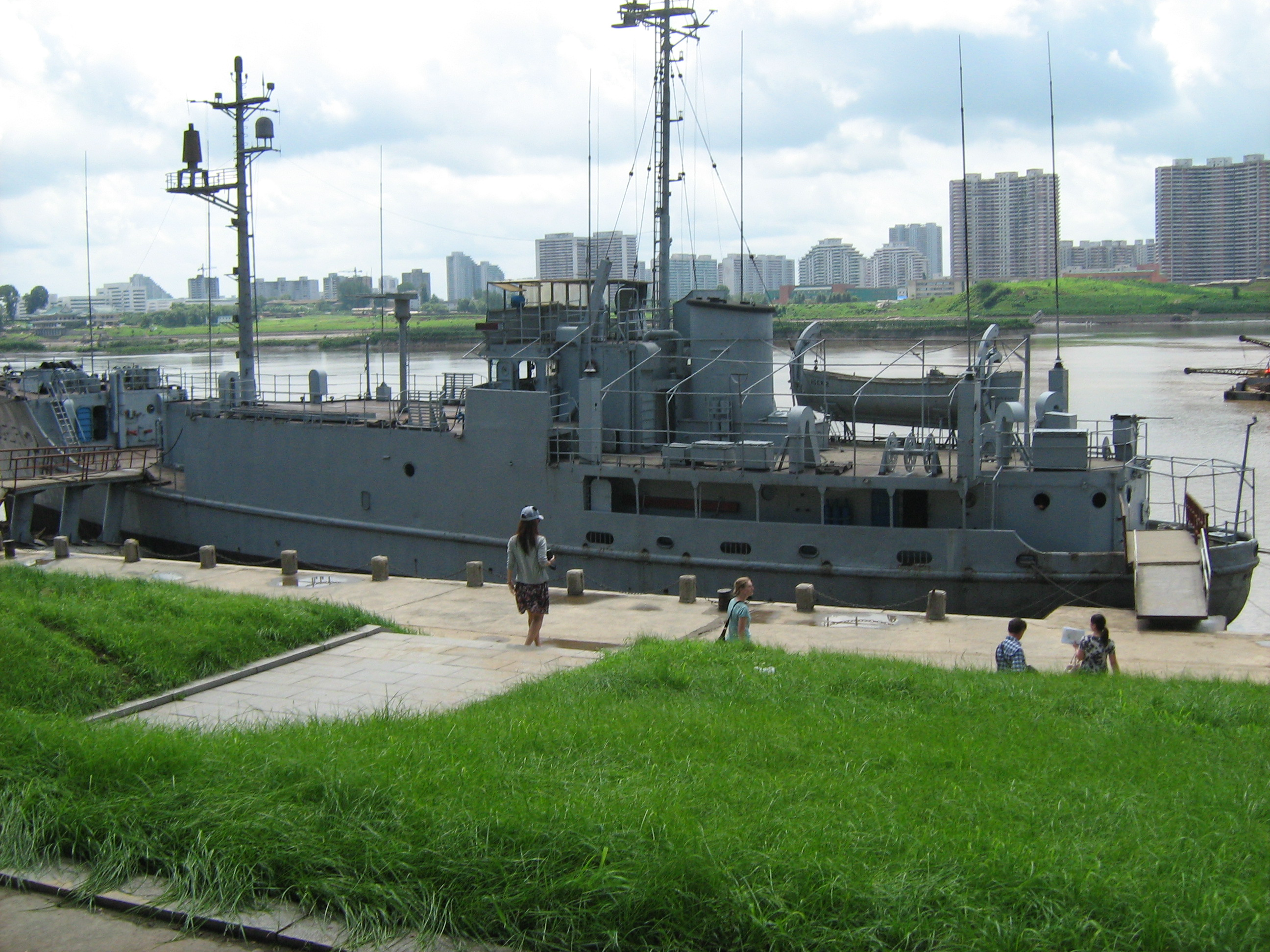 This photograph shows the captured American spy-ship, the USS Pueblo, being visited by tourists in Pyongyang, North Korea.